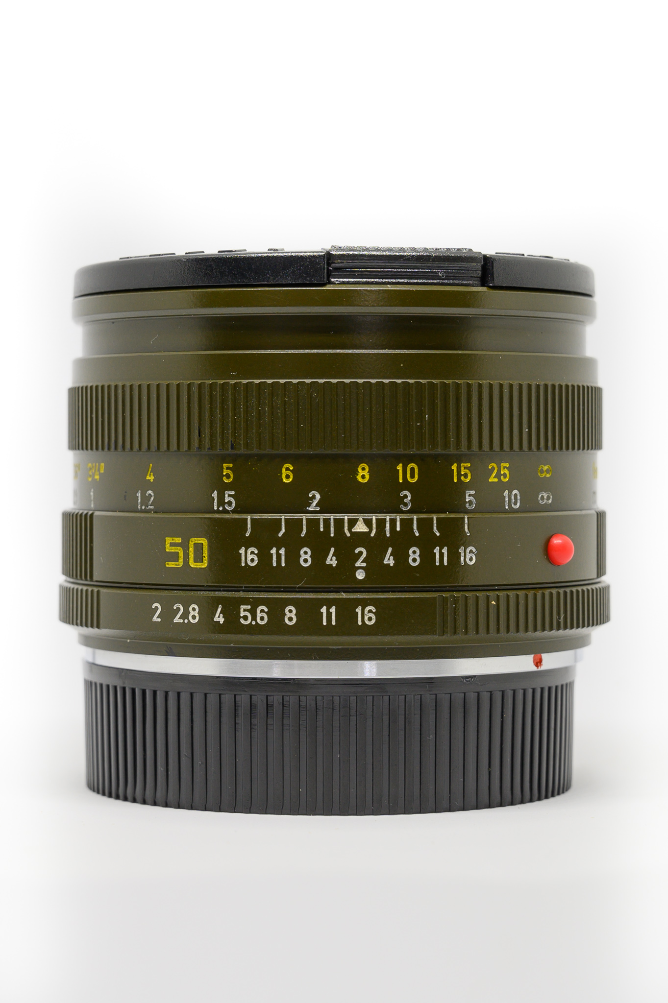 Leica 50mm f-2 Summicron-R II (1978) Safari green SLR lens